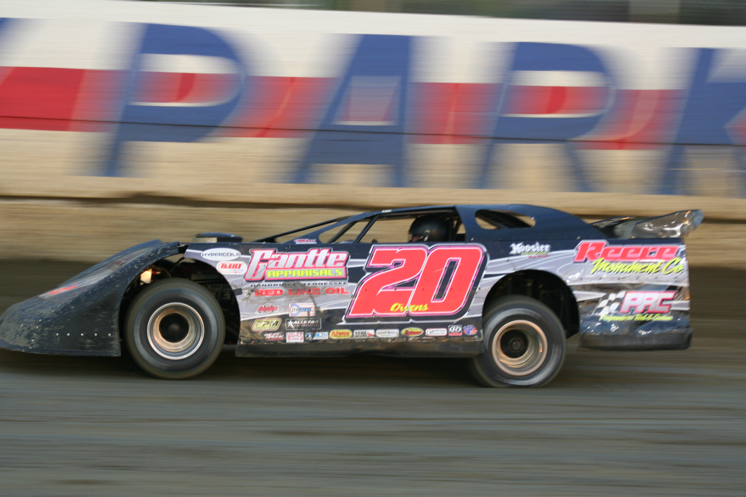 Jimmy Owens (racecar driver) dirt late model, Shot by "The Daredevil" at the 2008 East Bay Winternationals. Nicknamed "The Newport Nightmare"